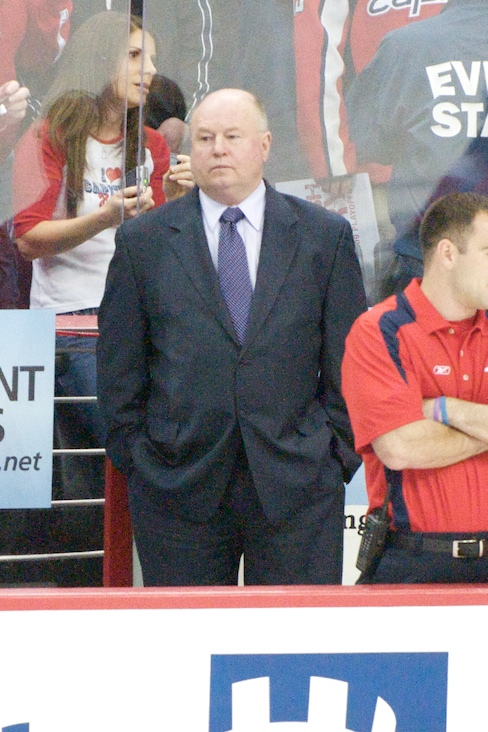 Bruce Boudreau during warmups of Game 2 of the Washington Capitals vs Pittsburgh Penguins 2009 Stanley Cup Conference Semifinals.